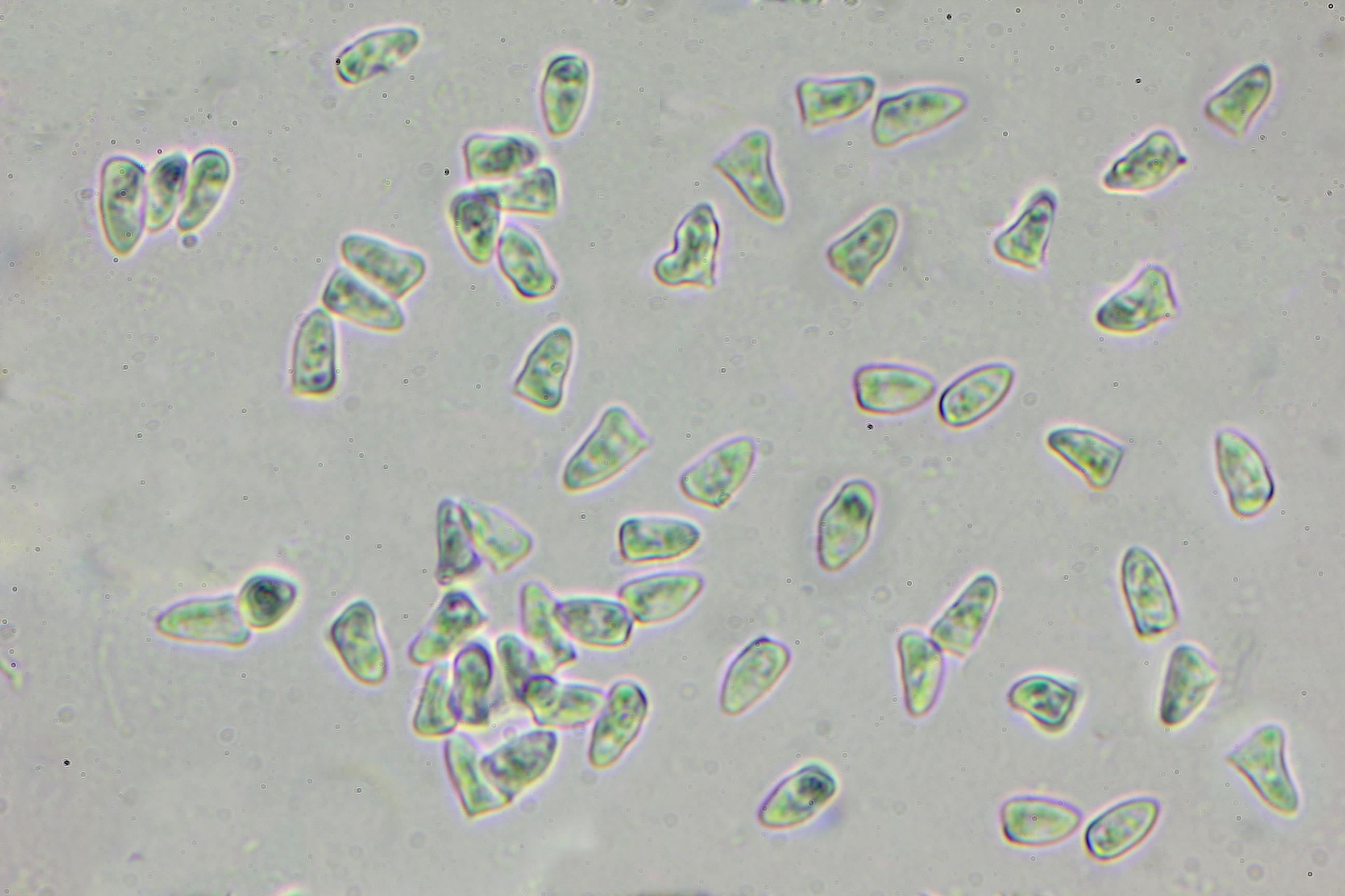 Spores of the agaric fungus Lepiota castaneidisca Murrill. From a specimen collected in Crystal Springs Watershed, San Mateo Co., California, USA. See Mushroom Observer page for more detailed collection notes.